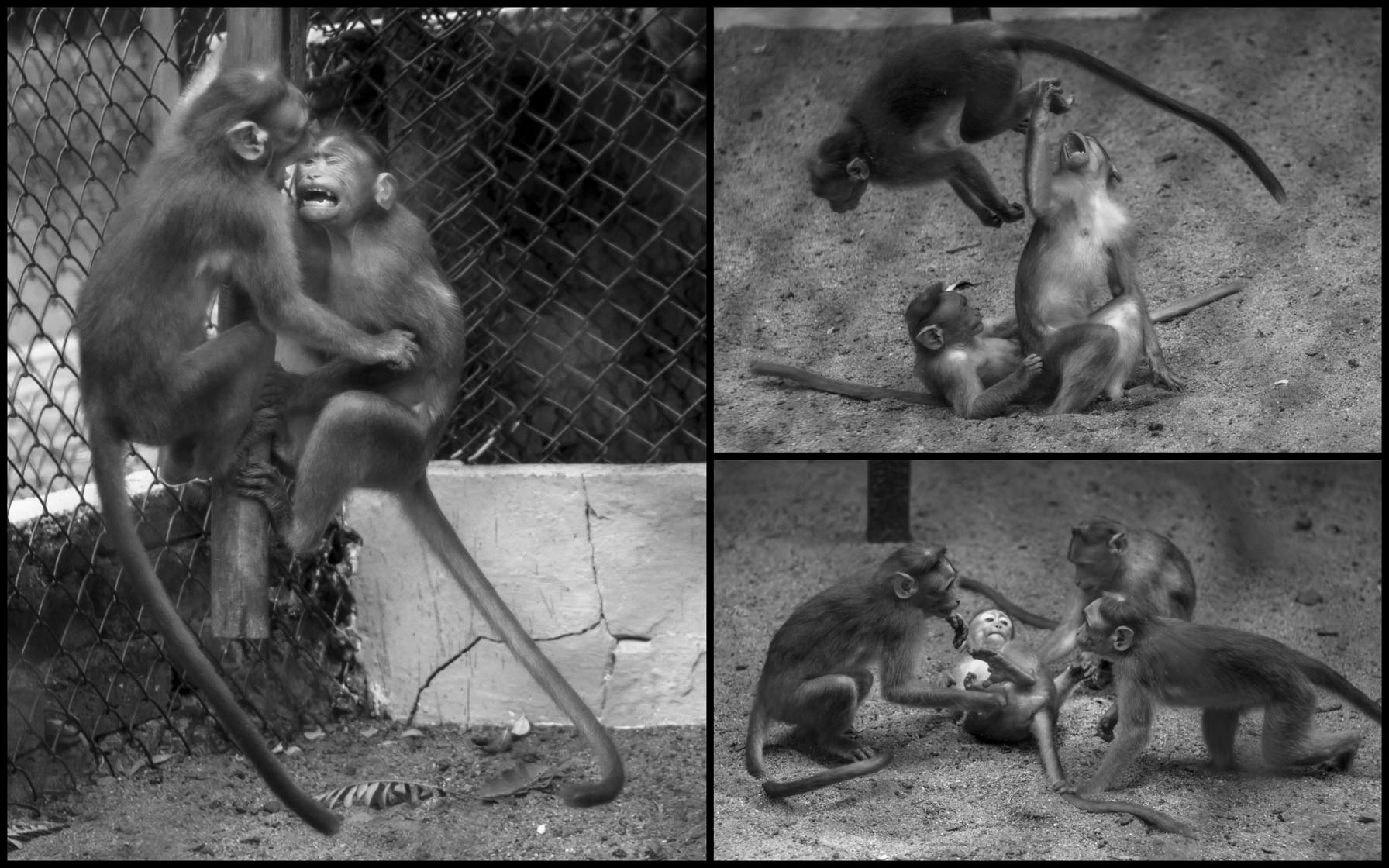 Monkeys having a friendly fight at the Children's park/Guindy National Park, Chennai.